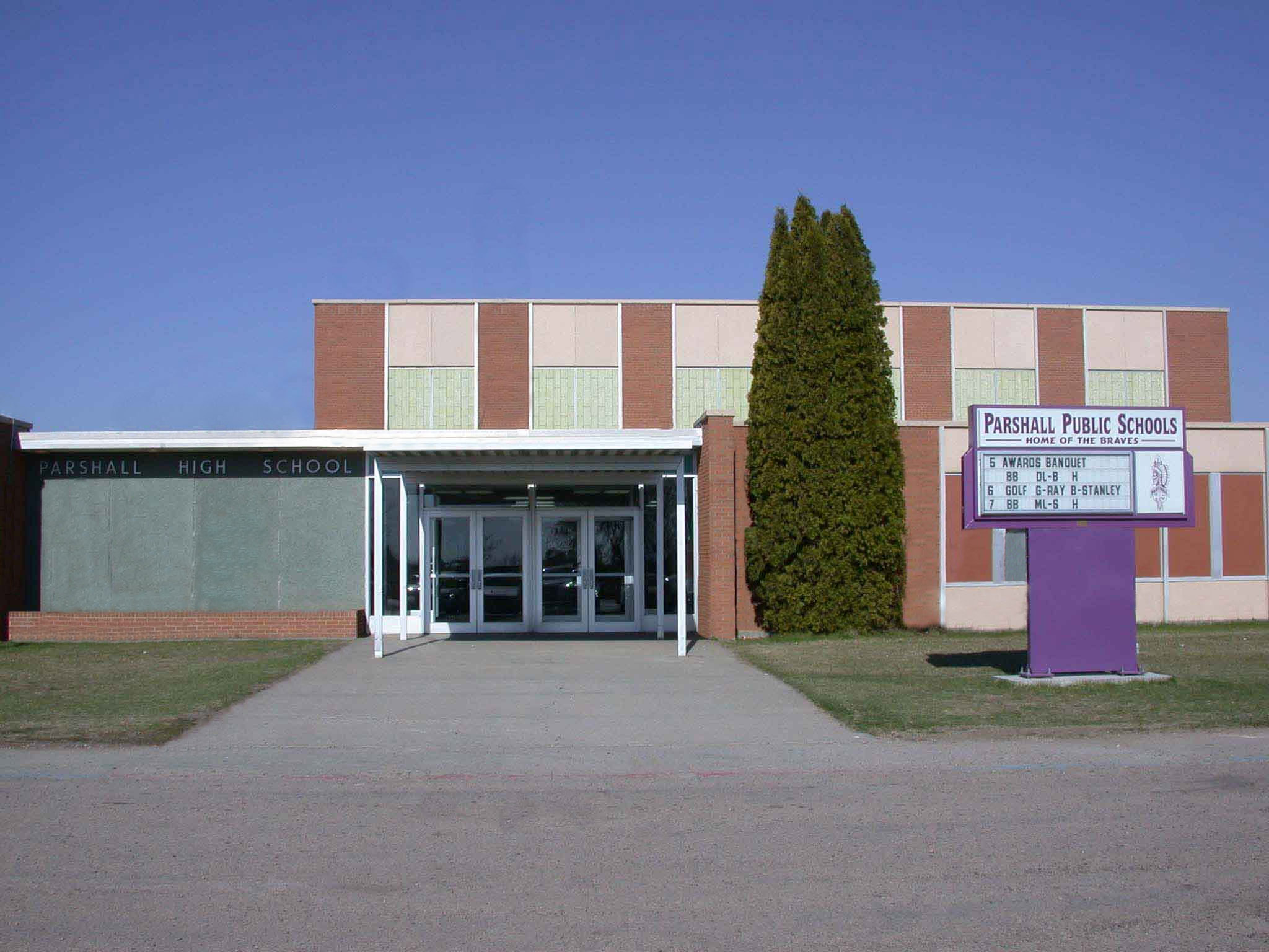 This is a photograph of Parshall High School. I took it myself.